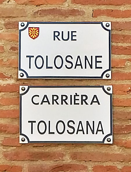 Rue Tolosane, in Toulouse - Street name sign. They have the particularity of being: in French and Occitan.